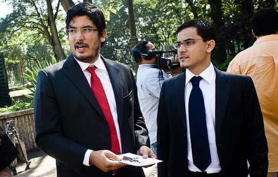 Brothers Lino (left) and Mario Bochinni (right) at the day of a session at the São Paulo State Courthouse for the Folha de S.Paulo v Falha de S. Paulo case.